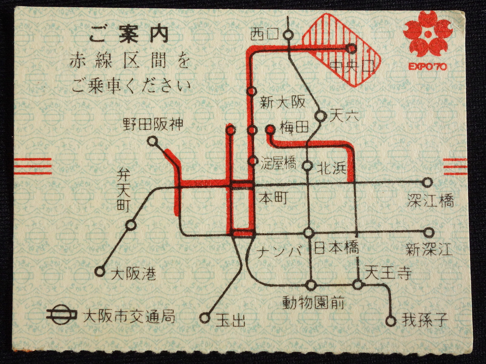 EXPO'70 round-trip ticket, Issued by Osaka Municipal Transportation Bureau (stub, front)